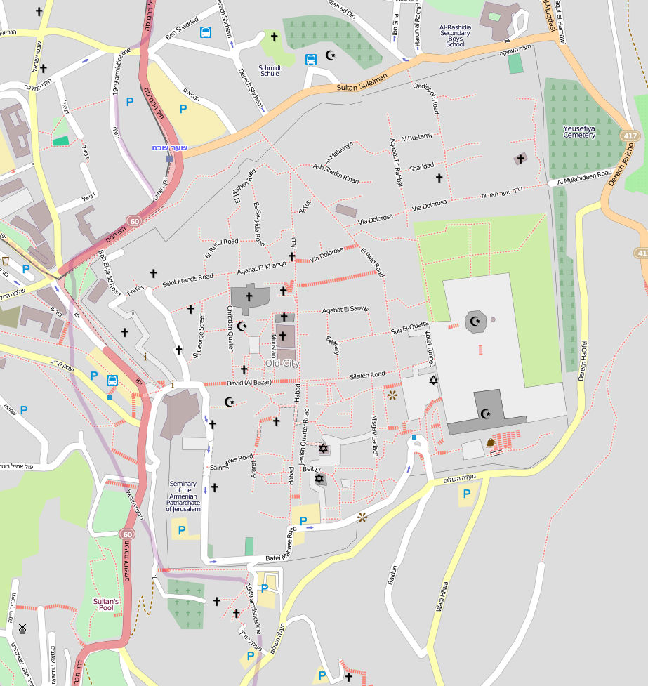 Map of Old Jerusalem Geographic limits of the map: N: 31.78466° S: 31.77045° W: 35.22369° E: 35.23949°